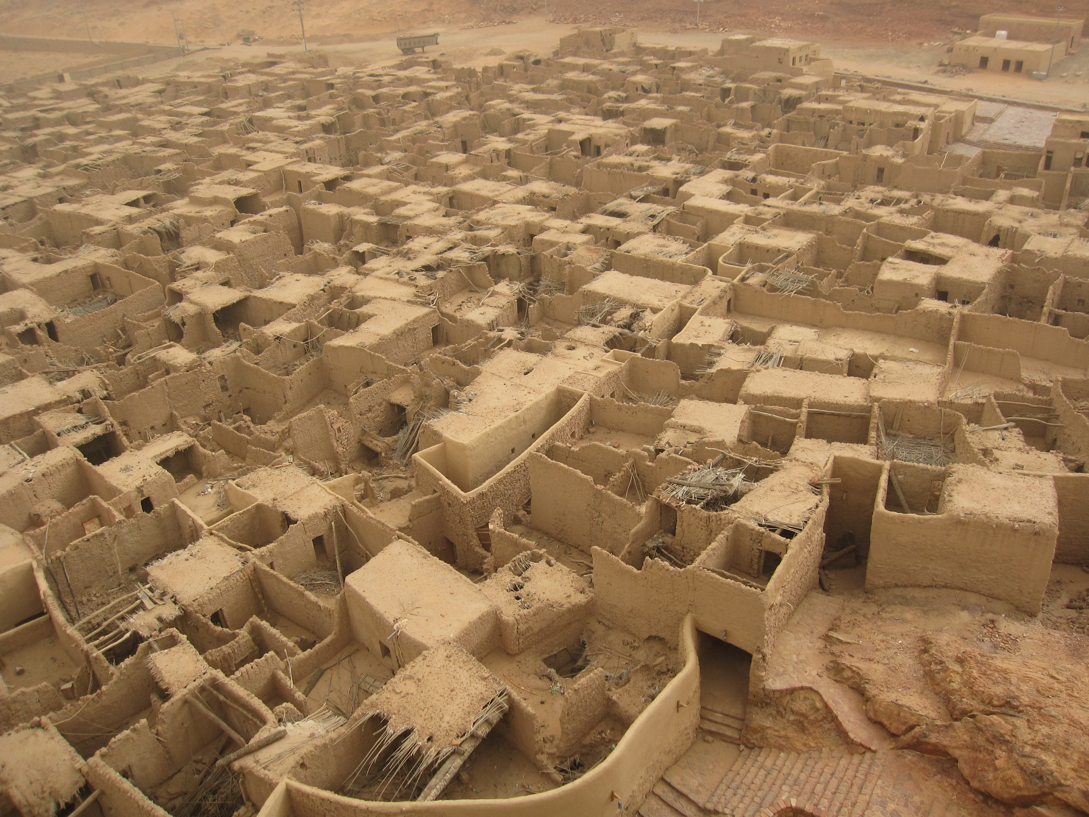 The old town of Al Ula, Saudi Arabia in 2011.